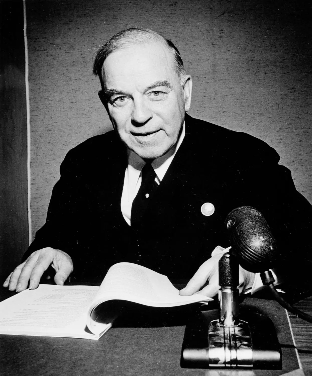 Rt. Hon. W.L. Mackenzie King, Prime Minister of Canada, broadcasting a message to Canada on VE-Day